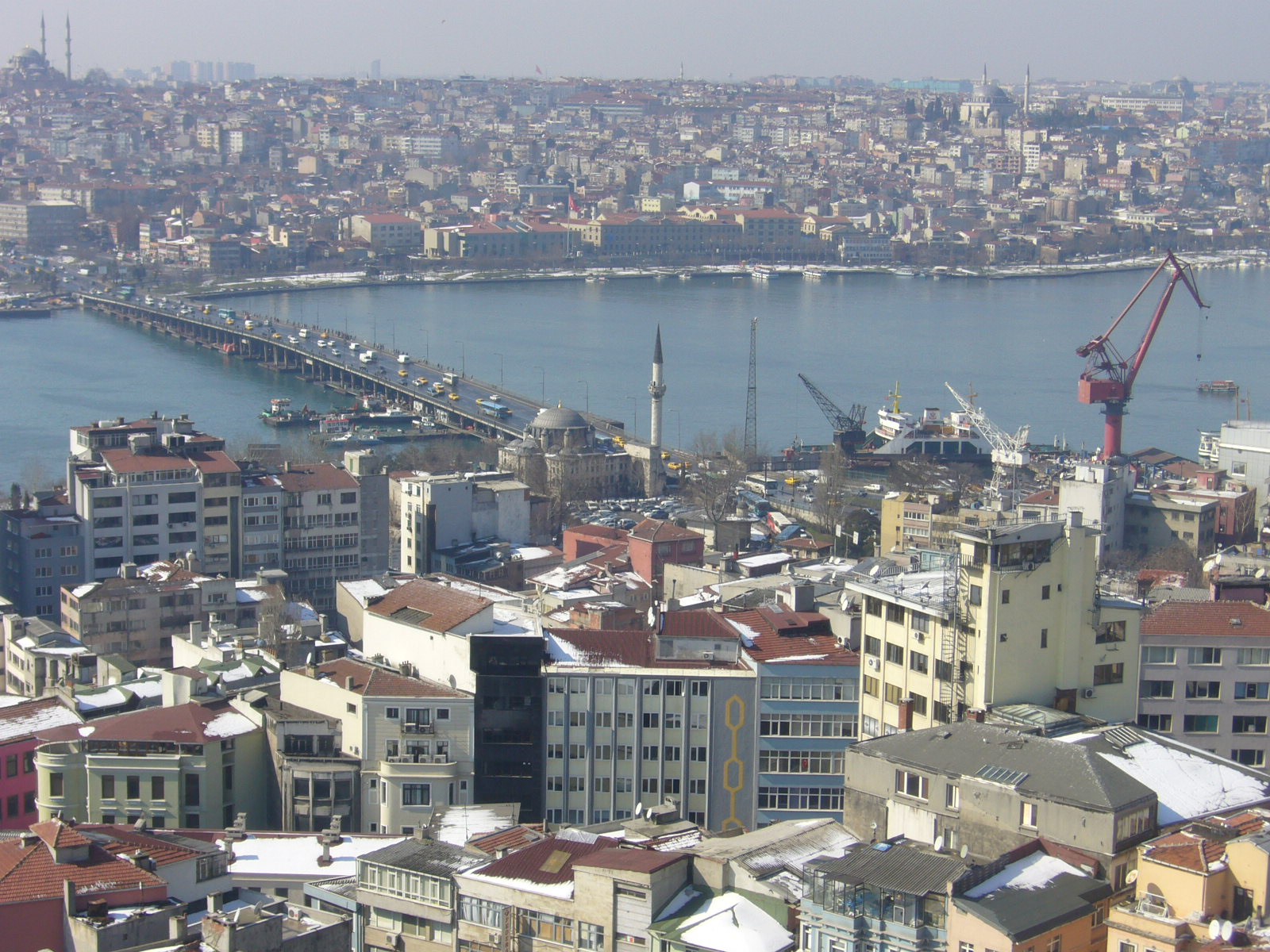 A view from the Galata Tower (Turkish Galata Kulesi) in İstanbul looking west. At the nearer end of the Atatürk Bridge is the Azapkapı (Sokullu) Camii (Mosque).